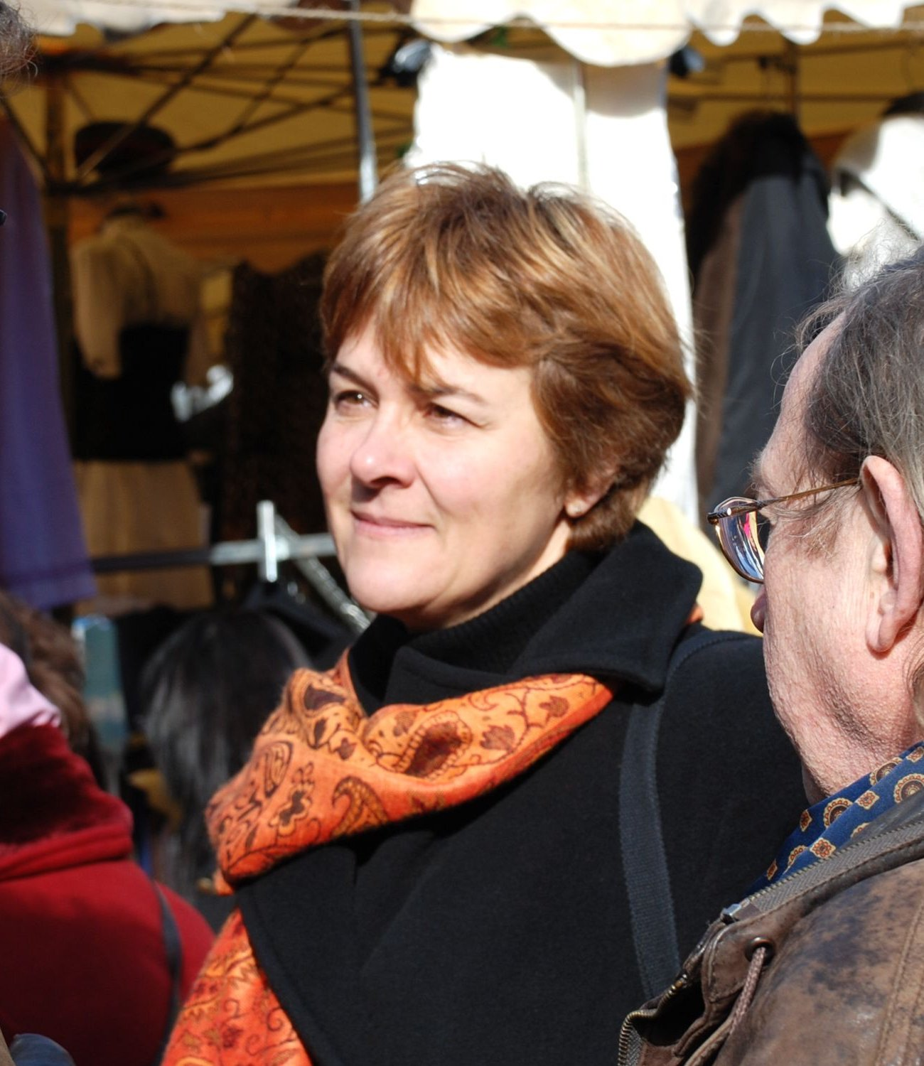 Dominique Voynet on a market on Feb. 3, 2008, in Montreuil.